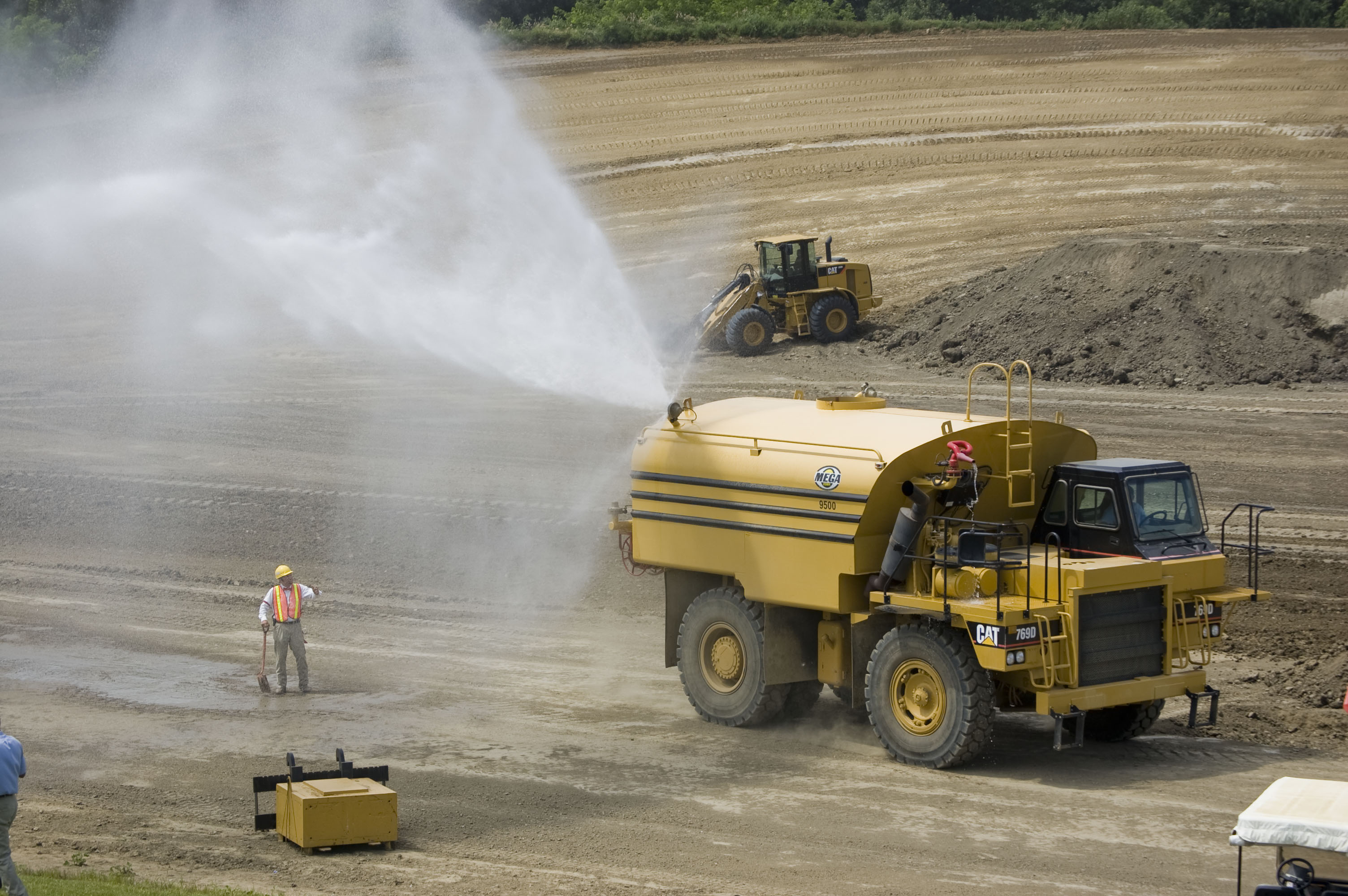 Caterpillar 769